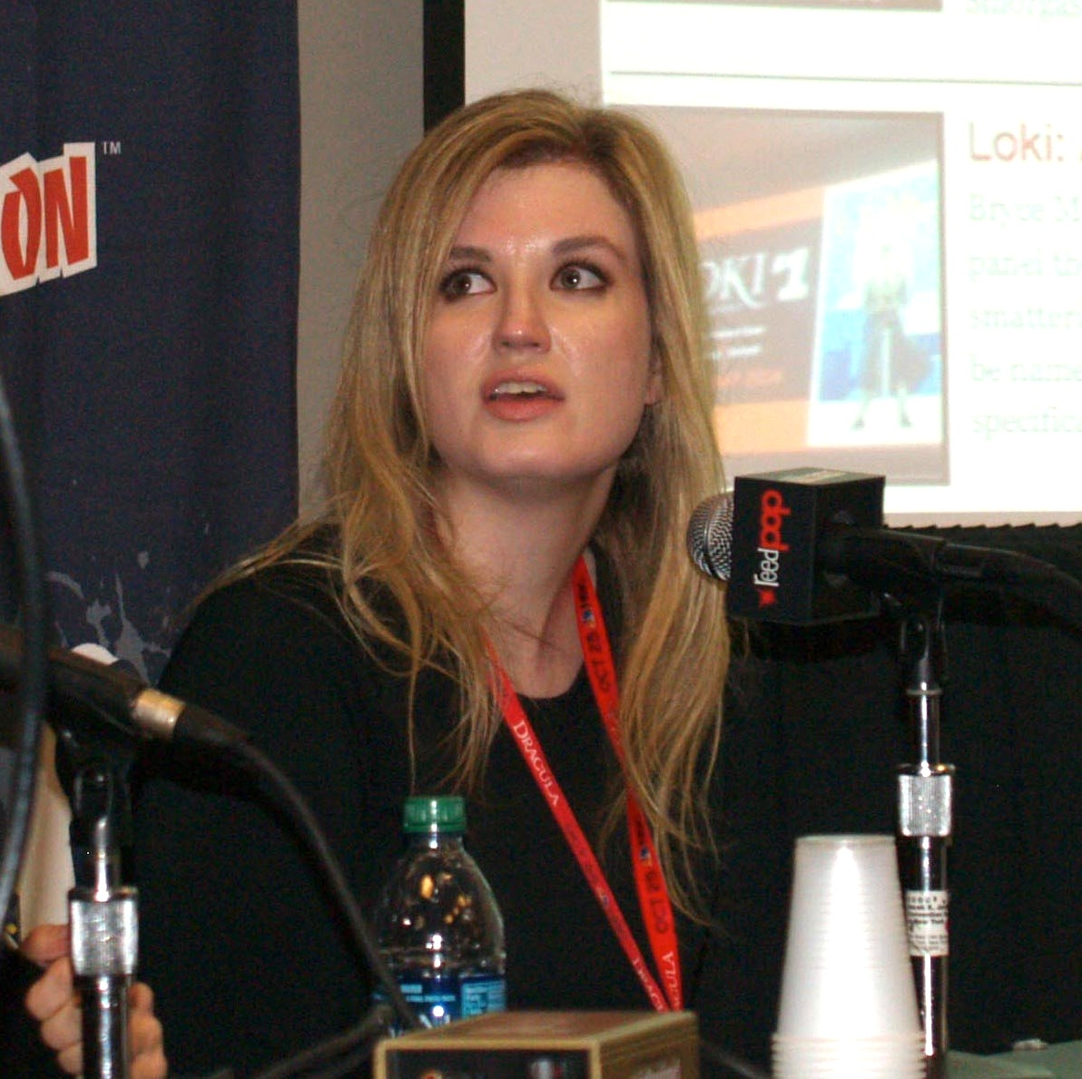 Bleeding Cool video host and reviewer Grace Randolph at the Bleeding Cool panel on Friday October 11, 2013 at the Jacob K. Javits Convention Center in Manhattan, Day 2 of the 2013 New York Comic Con. This photo was created by Luigi Novi. It is not in the public domain, and use of this file outside of the licensing terms is a copyright violation.